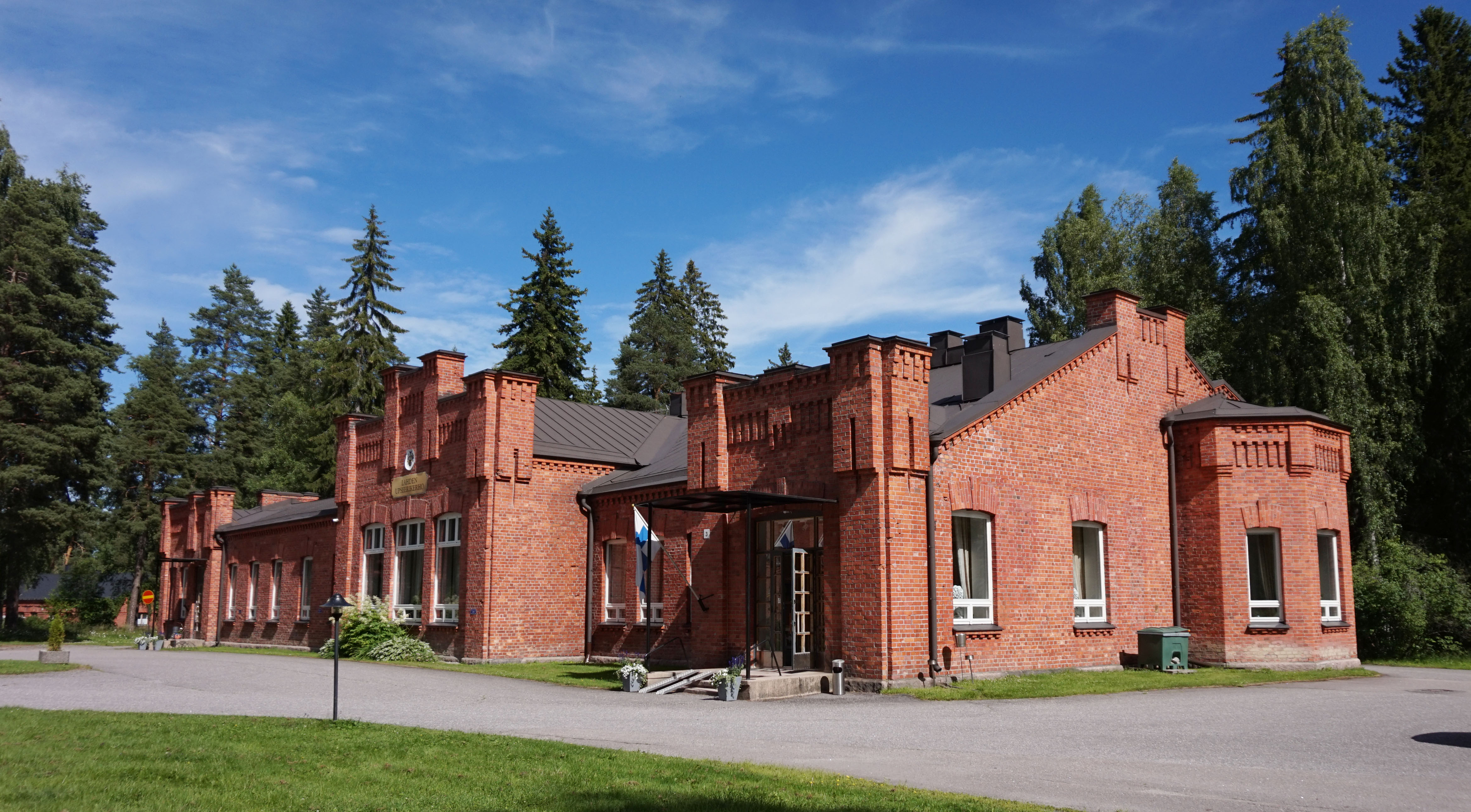 Hennala Garrison in Lahti, Finland. The building The Officer´s Club of Lahti.